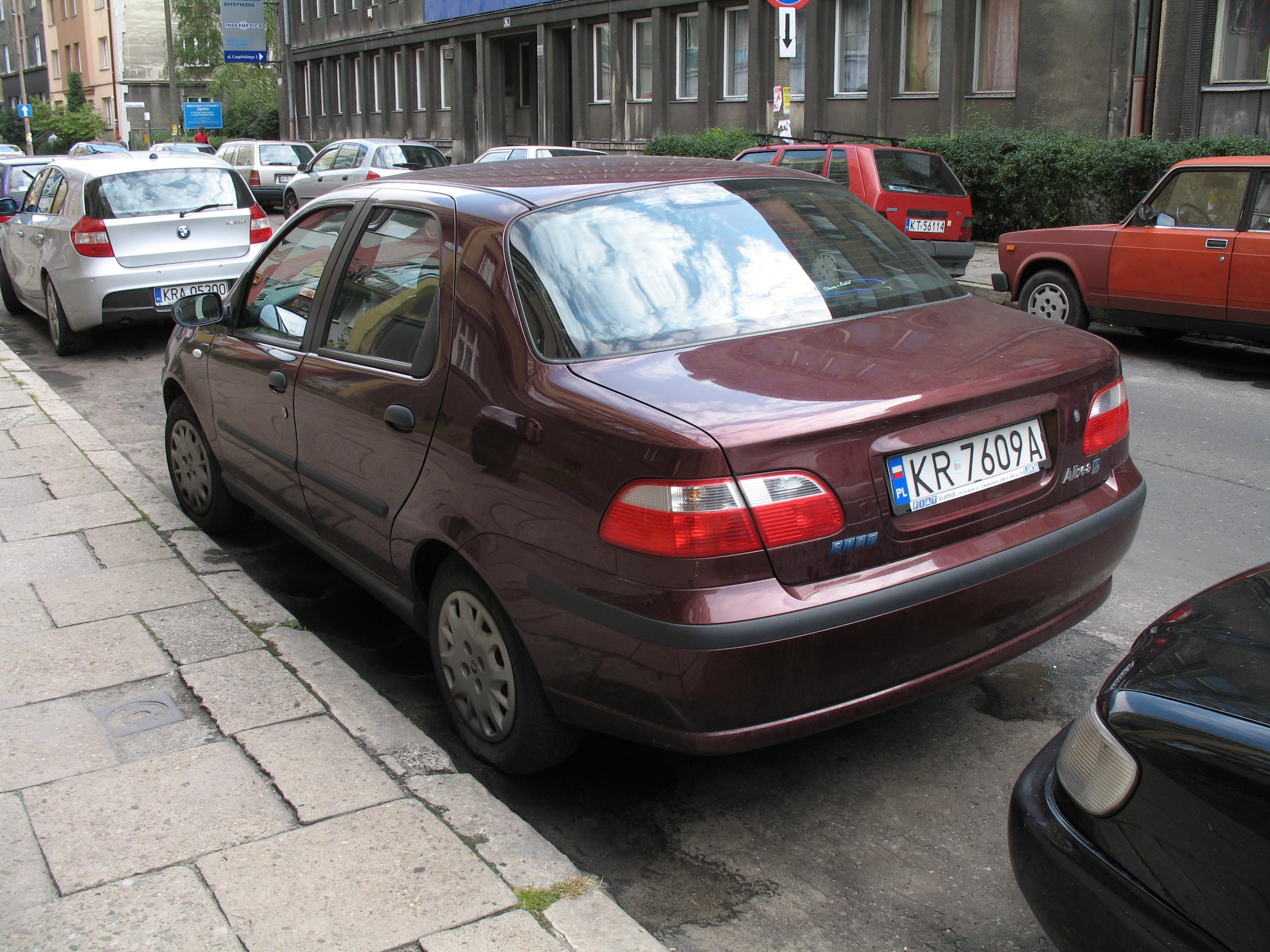 Fiat Albea Mk1 car in Kraków, Poland - rear.